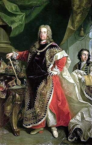 Portrait of Charles VI, Holy Roman Emperor (1685-1740) wearing the robes of the Order of the Golden Fleece